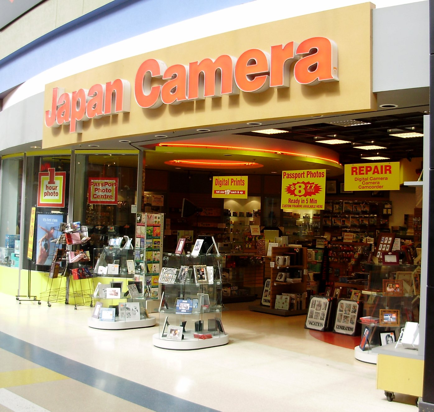 A Japan Camera store in the Scarborough Town Centre in Scarborough, Canada.